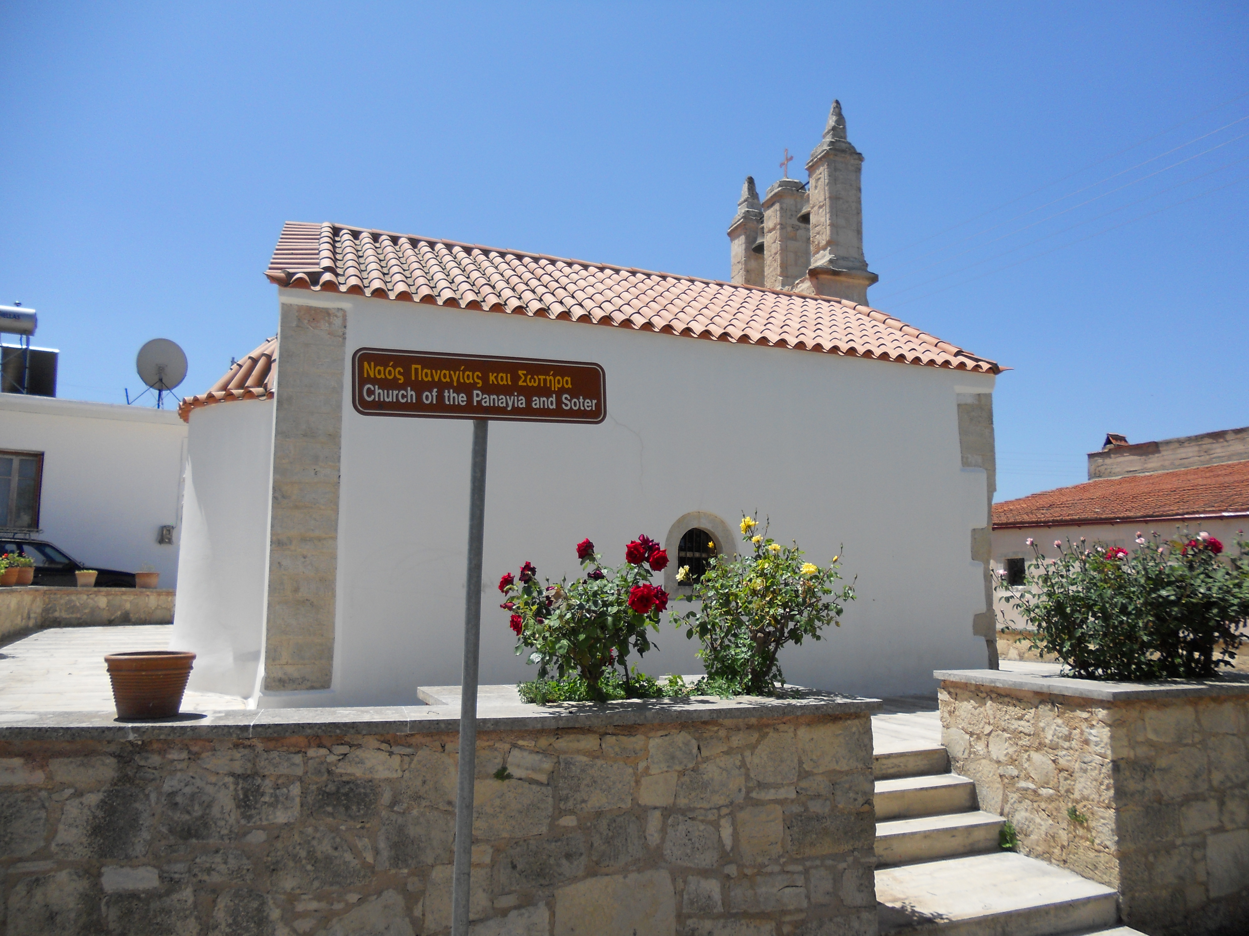 Church of the Panayia and Soter